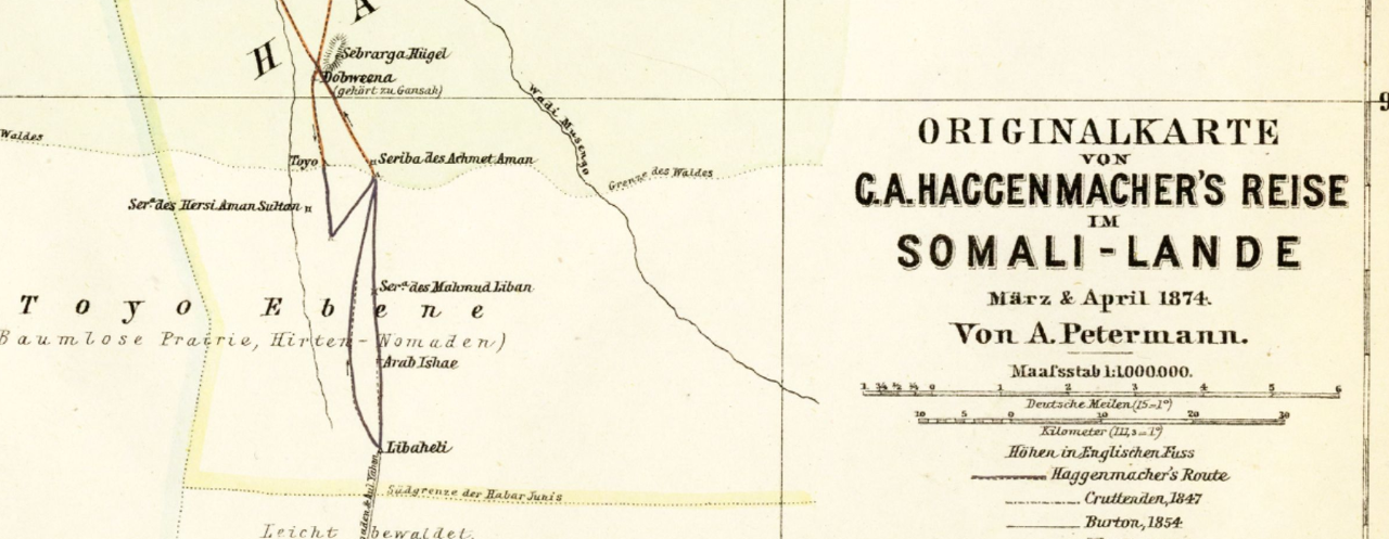 Sultan Hersi Aman located on German map.